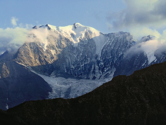 Fletschhorn Picture taken by user Idéfix, August 2006